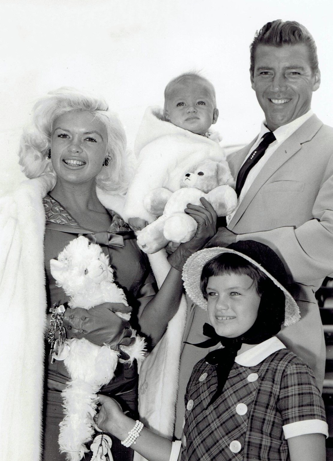 1959 Original DBLWT Photo Jayne Mansfield Mickey Hargitay & family in London